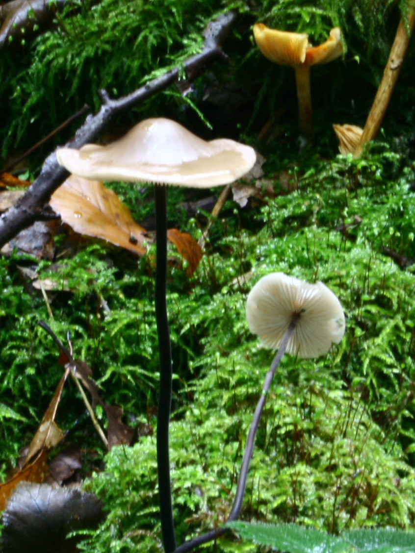 Marasmius alliaceus in a wood near Baden Baden, Germany.